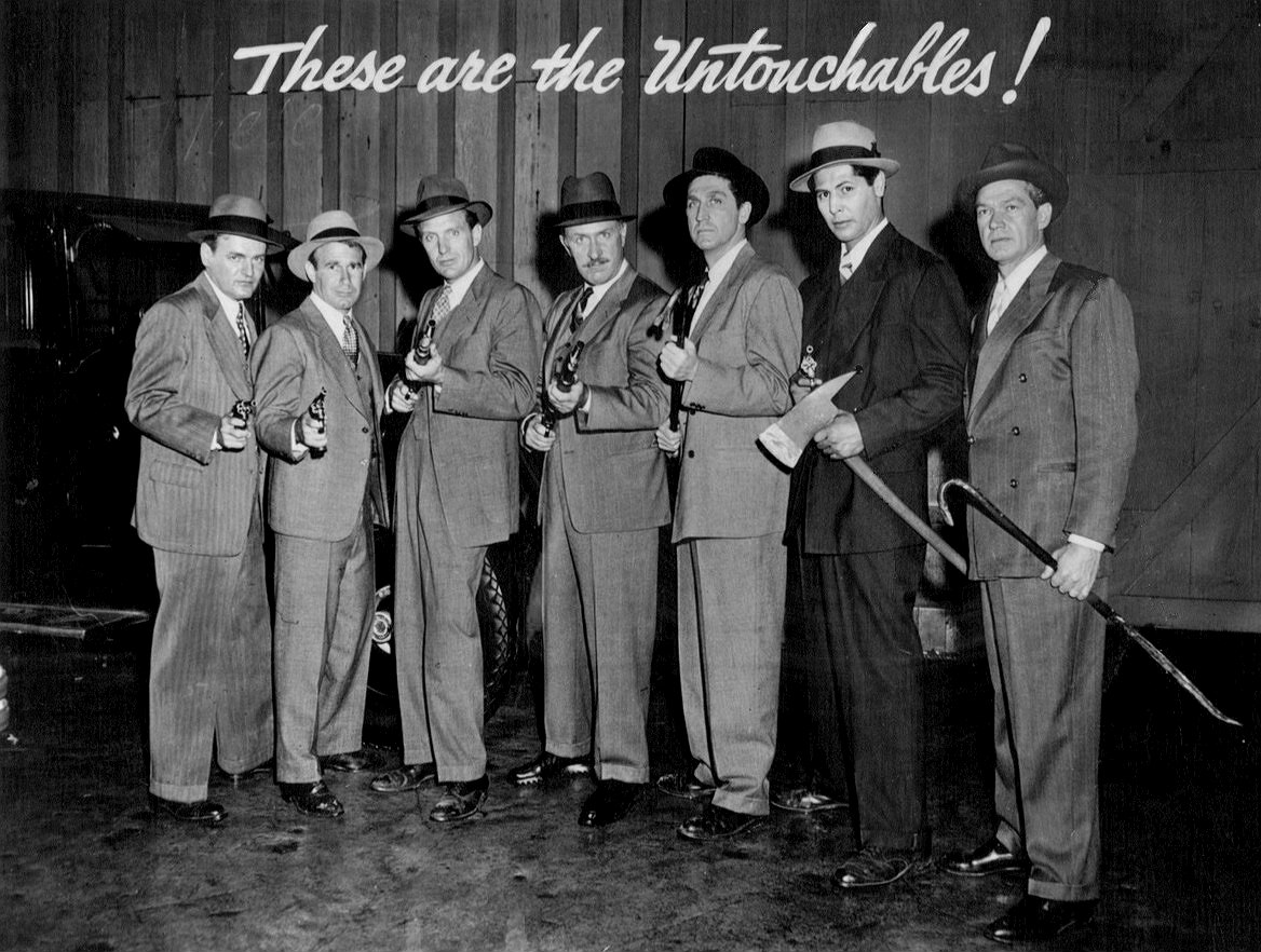 Photo of the cast for the first showing of The Untouchables on Desilu Playhouse. From left: Bob Osterloh, Eddie Firestone, Robert Stack, Keenan Wynn, Peter Leeds, Abel Fernandez and Bill Williams. Keenan Wynn is the son of Ed Wynn; only Robert Stack and Abel Fernandez went on to the television series which aired on ABC. The item has no copyright markings on it as can be seen in the links above.